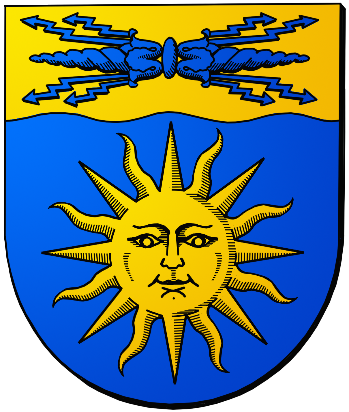 Coat of arms of municipality of Skellefteå. This representation of a coat of arms is potentially different from the one used by the armiger (municipality or organisation) in question. = ⇑“Sable, a lionrampant or” This coat of arms was drawn based on its blazon which – being a written description – is free from copyright. Any illustration conforming with the blazon of the arms is considered to be heraldically correct. Thus several different artistic interpretations of the same coat of arms can exist. The design officially used by the armiger is likely protected by copyright, in which case it cannot be used here.Individual representations of a coat of arms, drawn from a blazon, may have a copyright belonging to the artist, but are not necessarily derivative works. Further information: Commons:Coats of arms and Template:Coa blazon